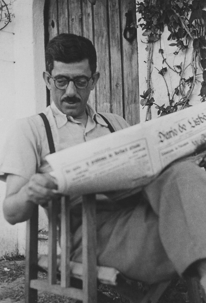 Manuel Mendes, 1944